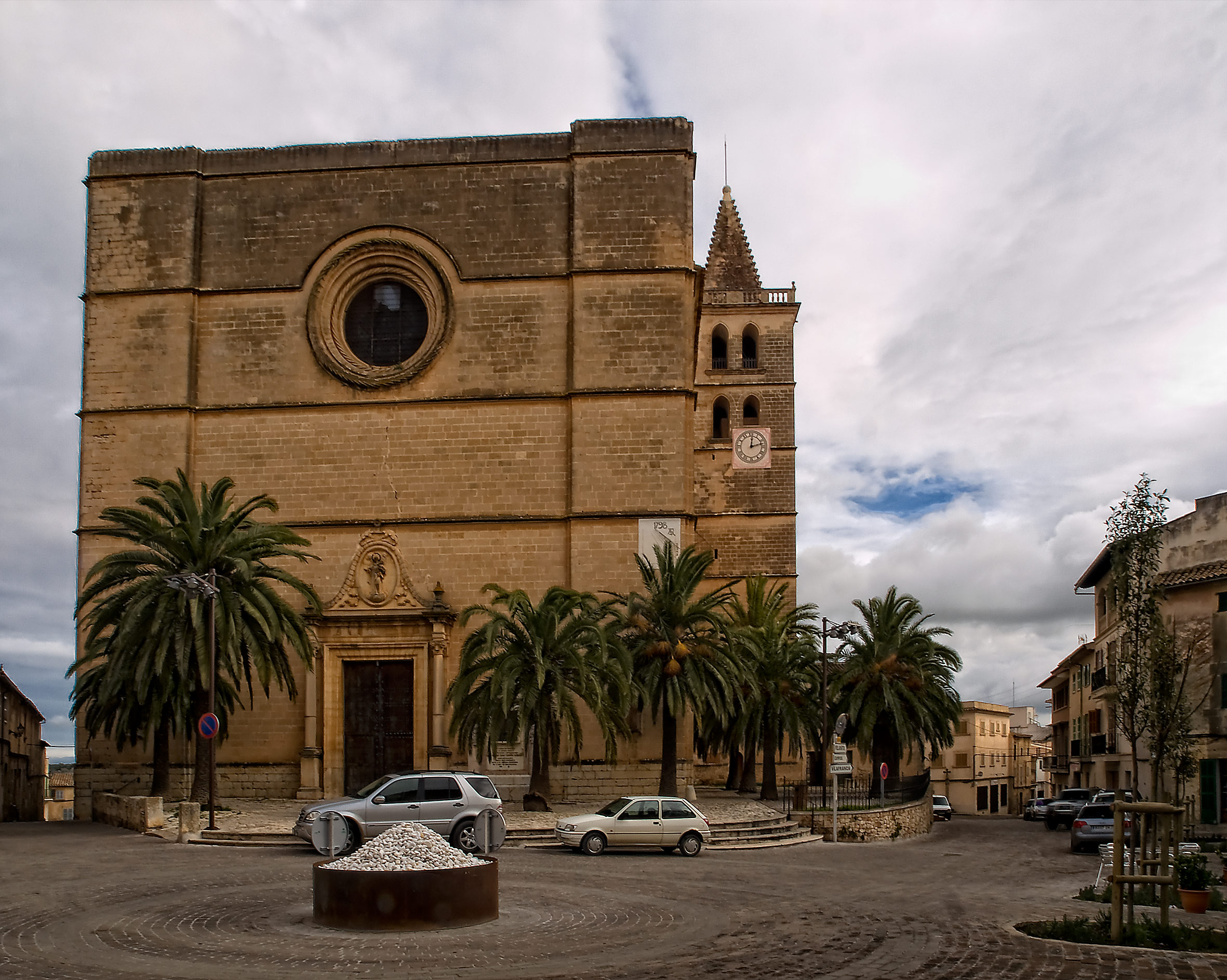 Porreres church (Mallorca)